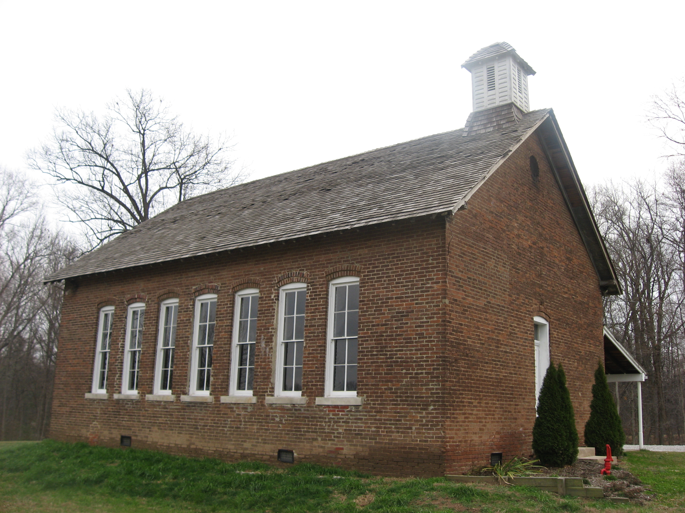 Front and western side of the Wilbur School, located on Wilbur Road at Wilbur in Gregg Township, Morgan County, Indiana, United States. Built in 1876, it is listed on the National Register of Historic Places.